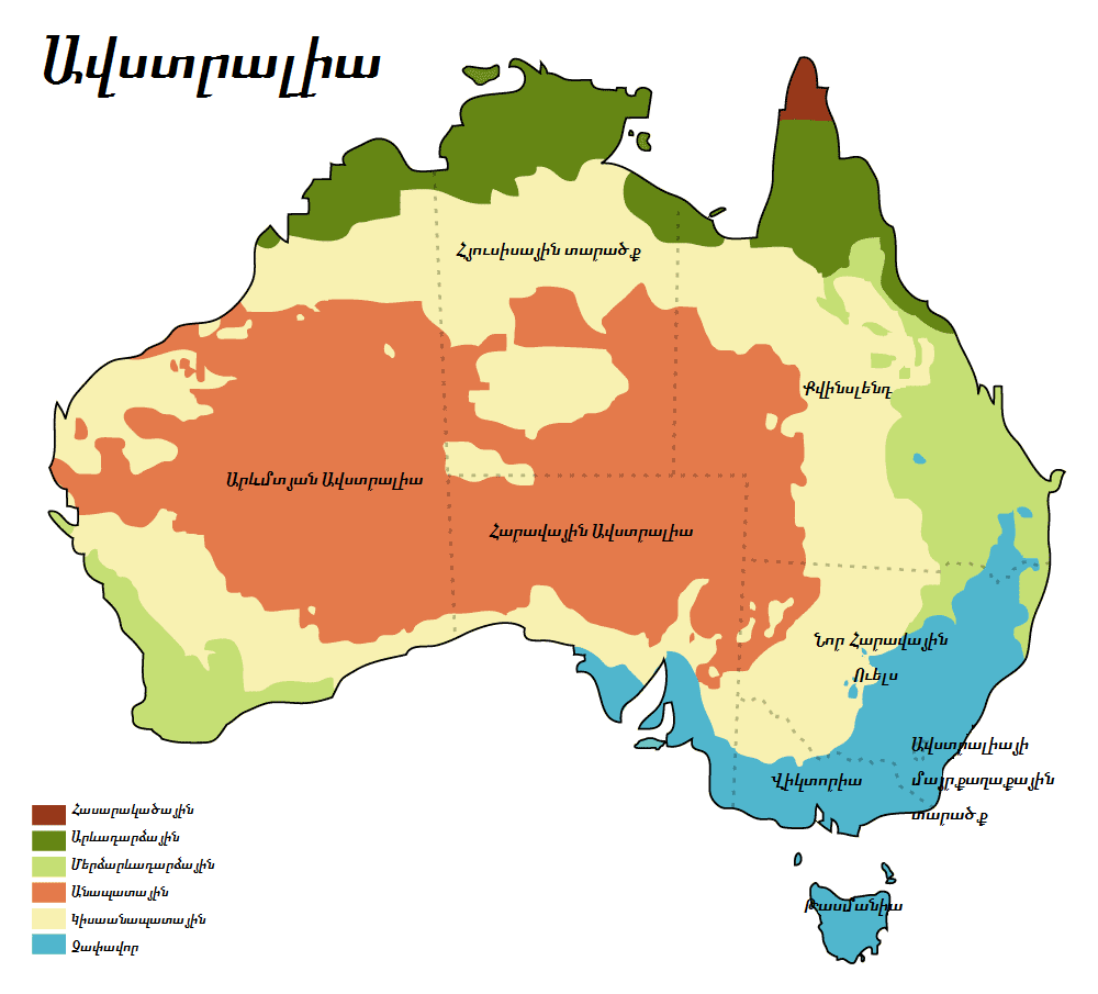 A climate map of Australia.